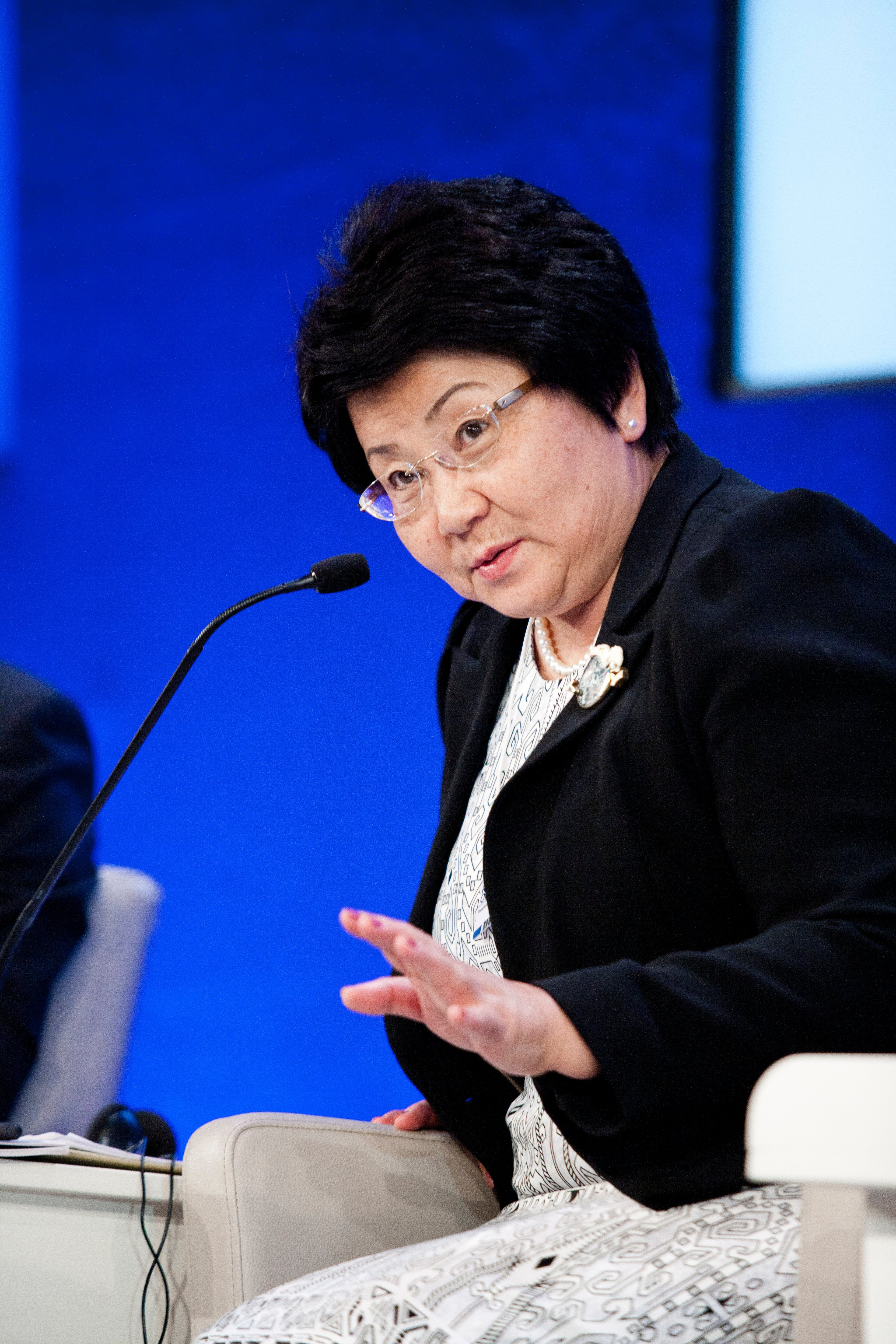 Roza Otunbayeva at the World Economic Forum.